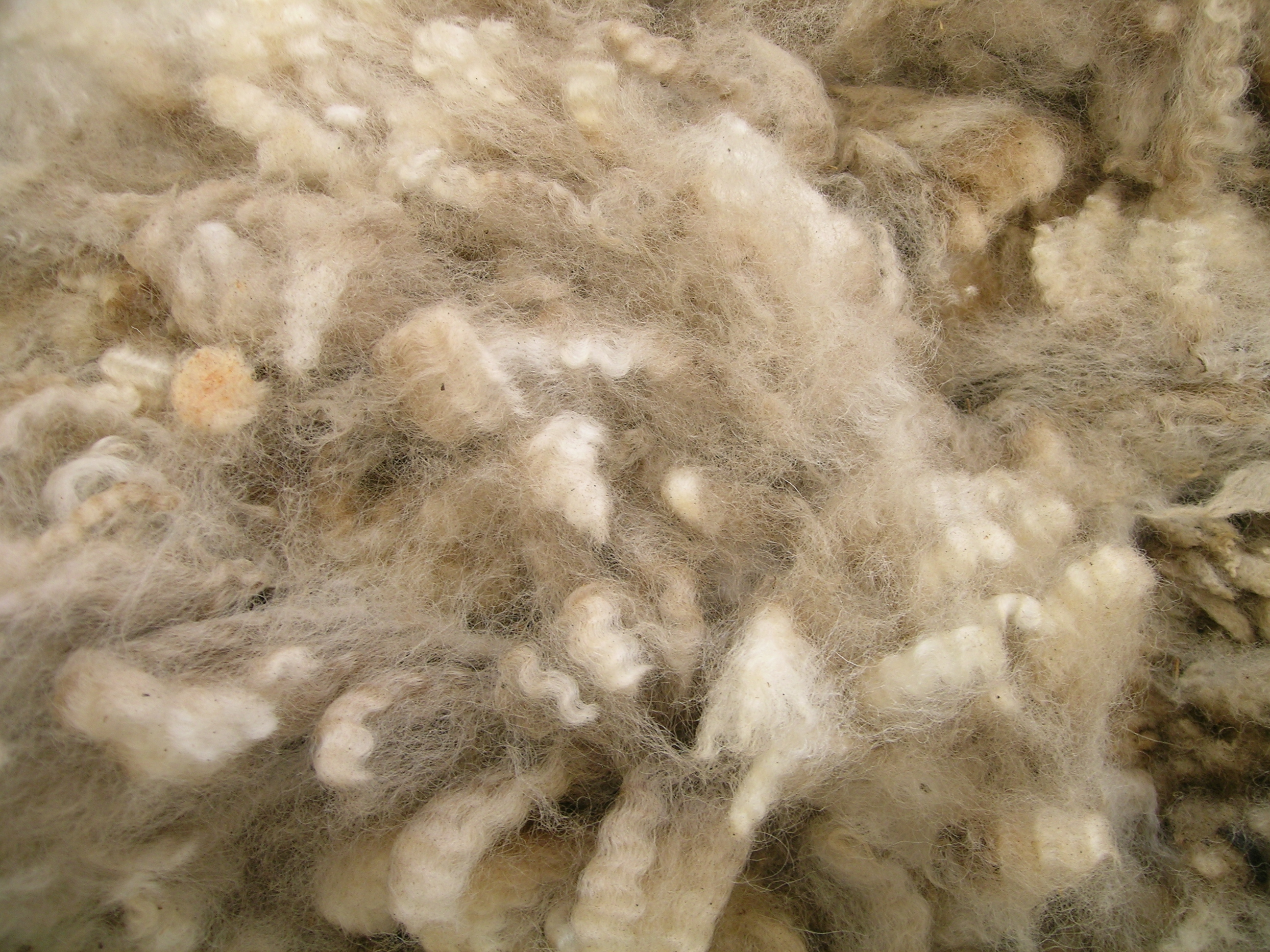 Crossbred wool